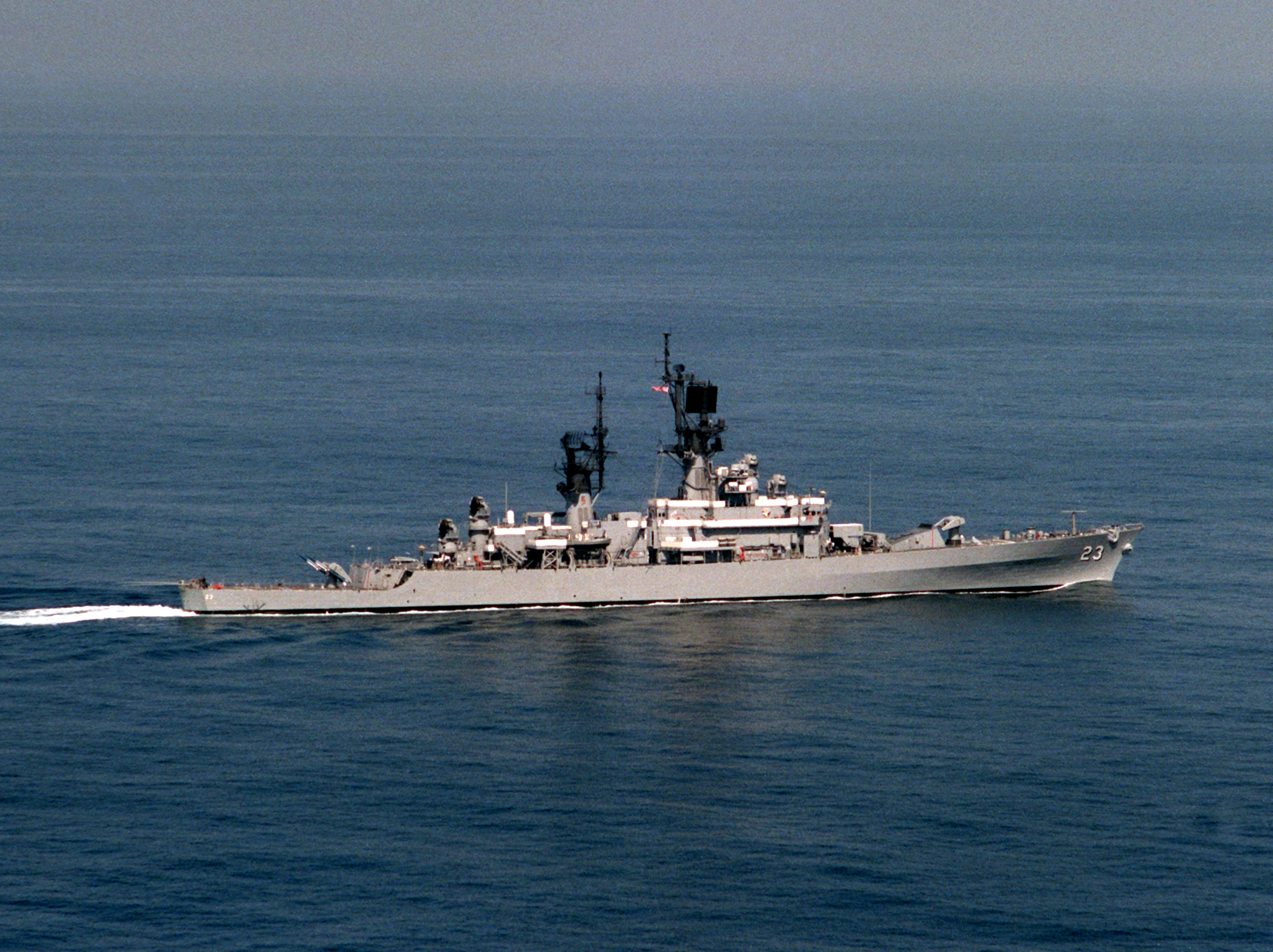 The U.S. Navy guided missile cruiser USS Halsey (CG-23) underway in the Pacific Ocean on 2 March 1987.